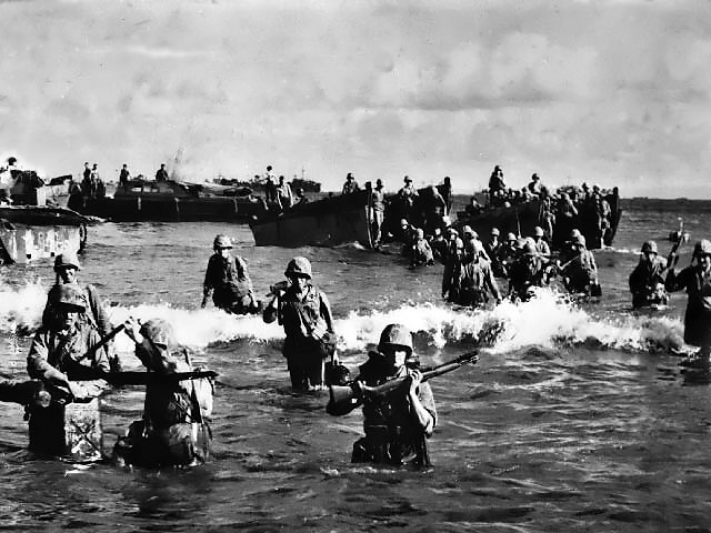 Marines wading ashore on Tinian.